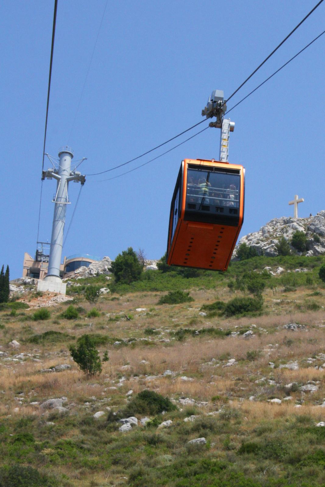 Cable car Srđ, Dubrovnik - Croatia.